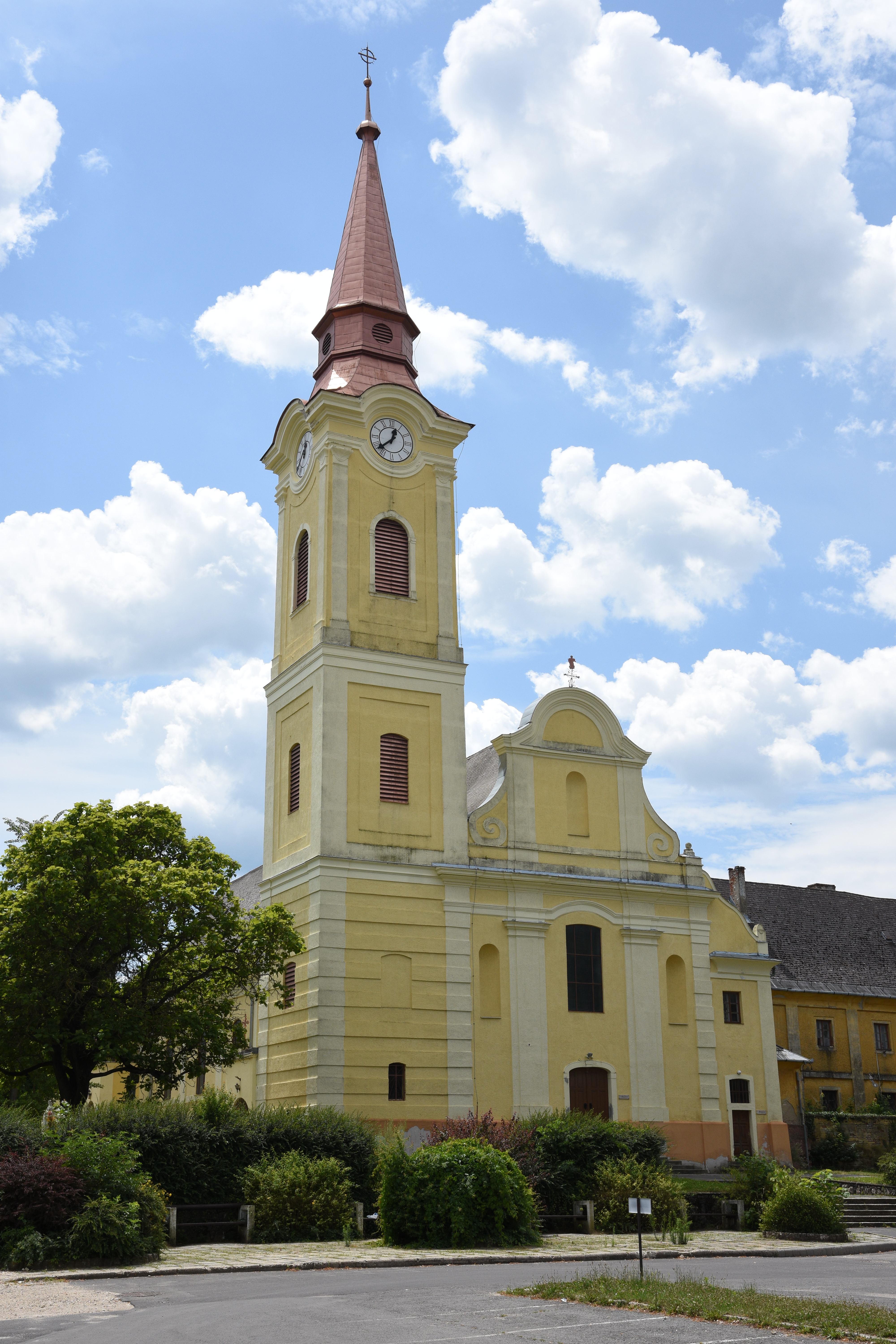 Alsóváros Franciscan church, Nagykanizsa